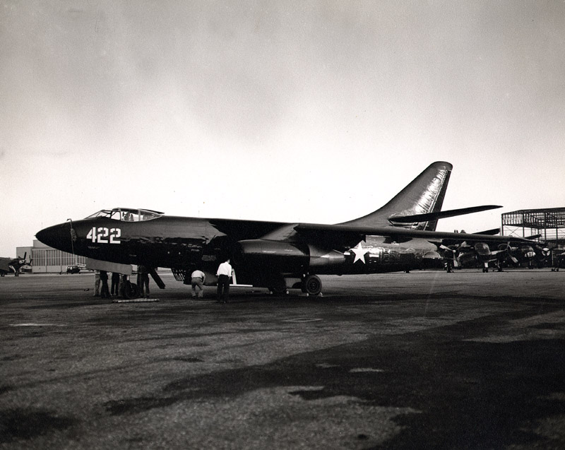 A Douglas A3D-1 Skywarrior (BuNo 135422) at Naval Air Station Jacksonville, Florida (USA). The photo must have been taken before 1955, when light gray ("gull gray") for tops and sides and white for undersides became standard camouflage for all U.S. Navy combat aircraft. This aircraft was lost in an accident while in service with the training squadron (fleet replacement squadron) VAH-3 Sea Dragons in May 1960. Two Grumman S2F Trackers (right) and a Grumman AF Guardian (left) are visible in the background.